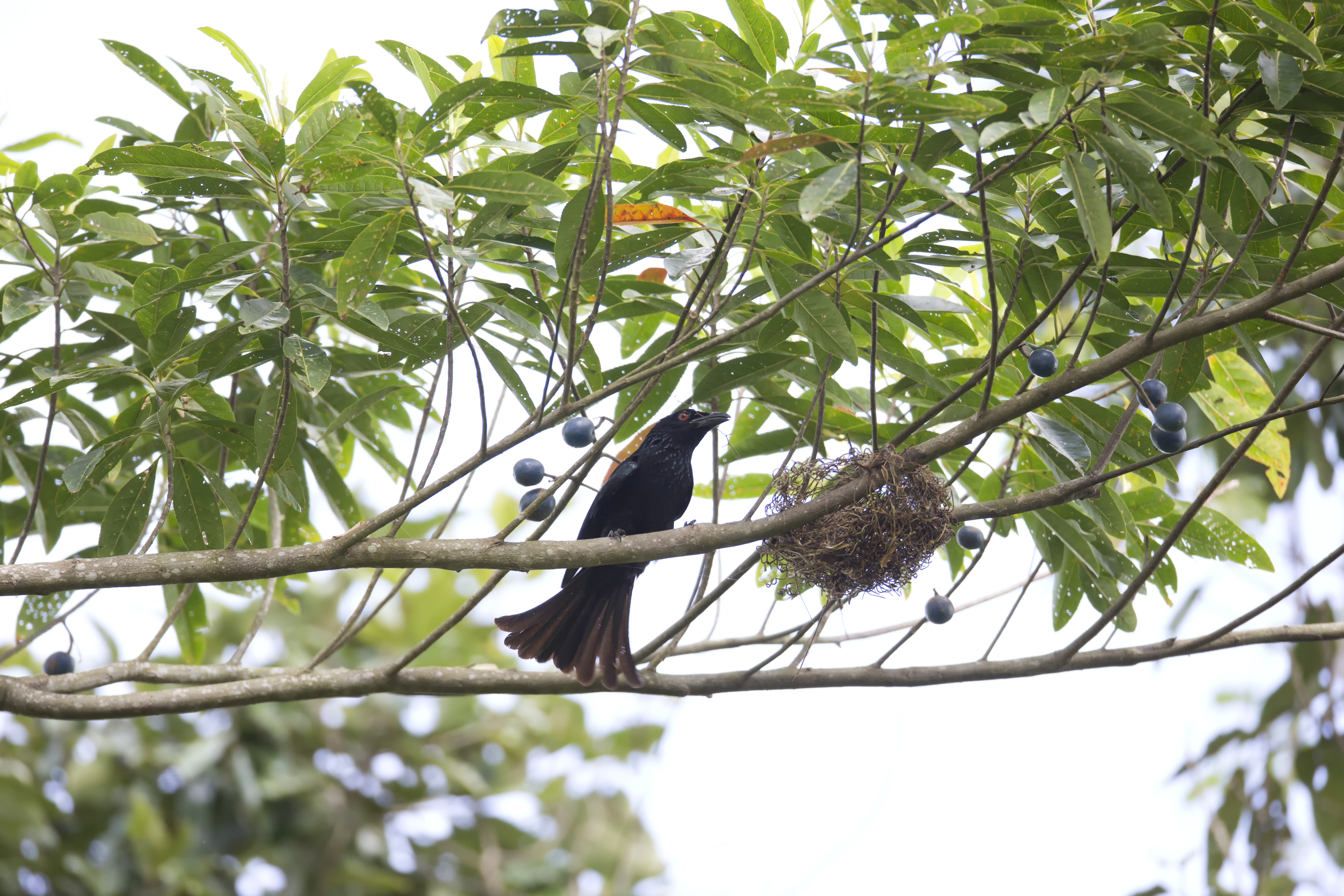 Nest building time for Spangled Drongos at Bellenden Kerr North Queensland. They drive off all other birds